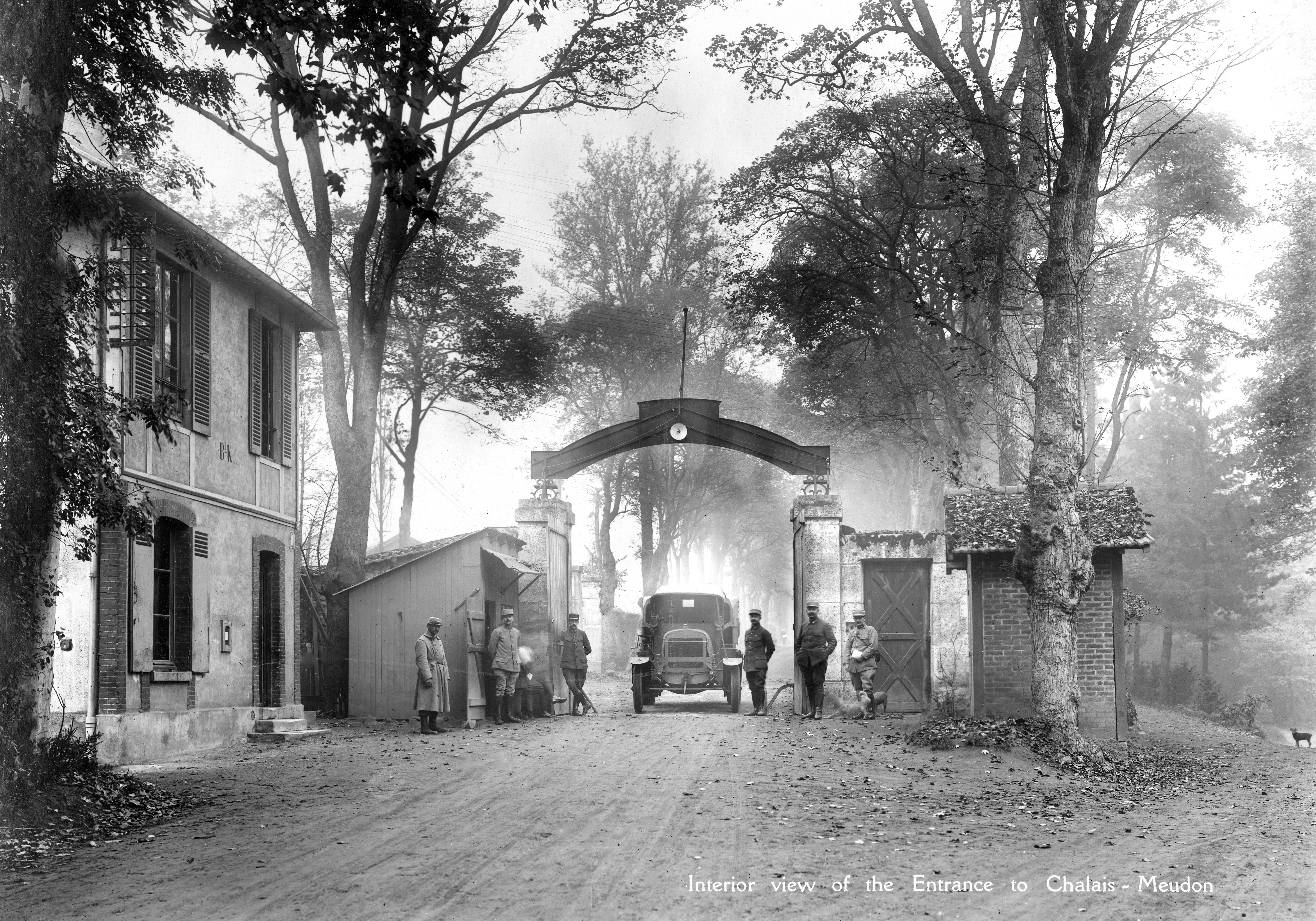 US Navy at Chalais - Meudon, France 1918. Interior view of the entrance of Chalais - Meudon, France